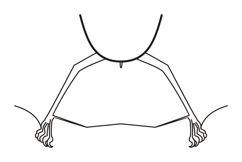 According to Husson, 1962 shows interfemoral membranes, calcar, feet and tail in bats of genus Chrotopterus